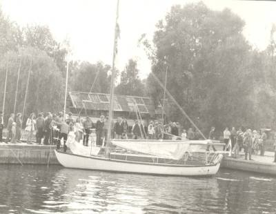 The yacht Dal in Szczecin, Poland, 1980.